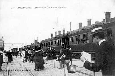 "Train Transatlantique" in Cherbourg Maritime Rly Station